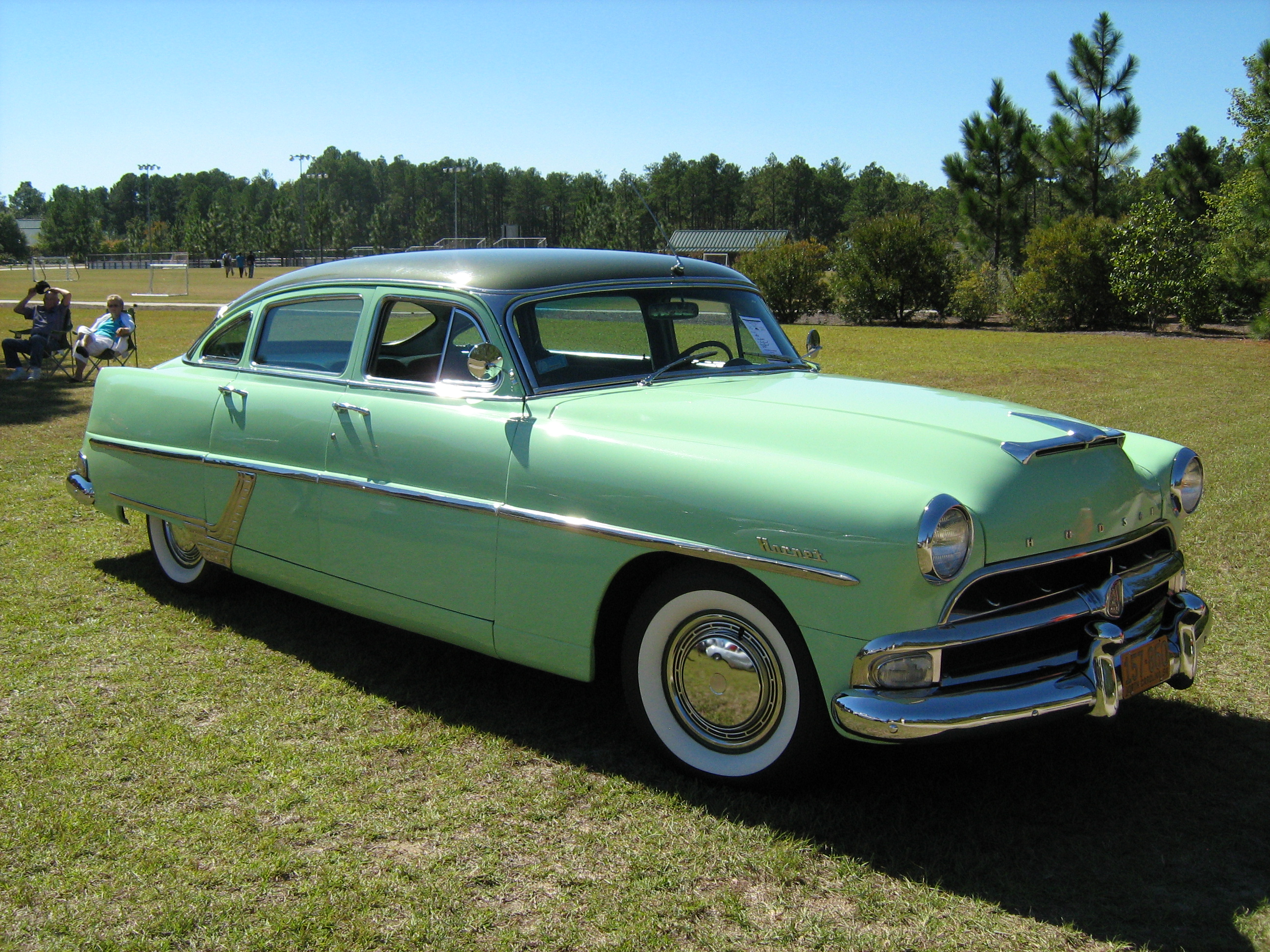 1954 Hudson Hornet. A four-door "Step-Down" sedan finished in two-tone paint: light green with darker green roof. This car has the "Twin-H-Power" 308 cu in (5.0 L) straight-six engine producing 170 hp (127 kW). Picture taken at a local car show in North Carolina.